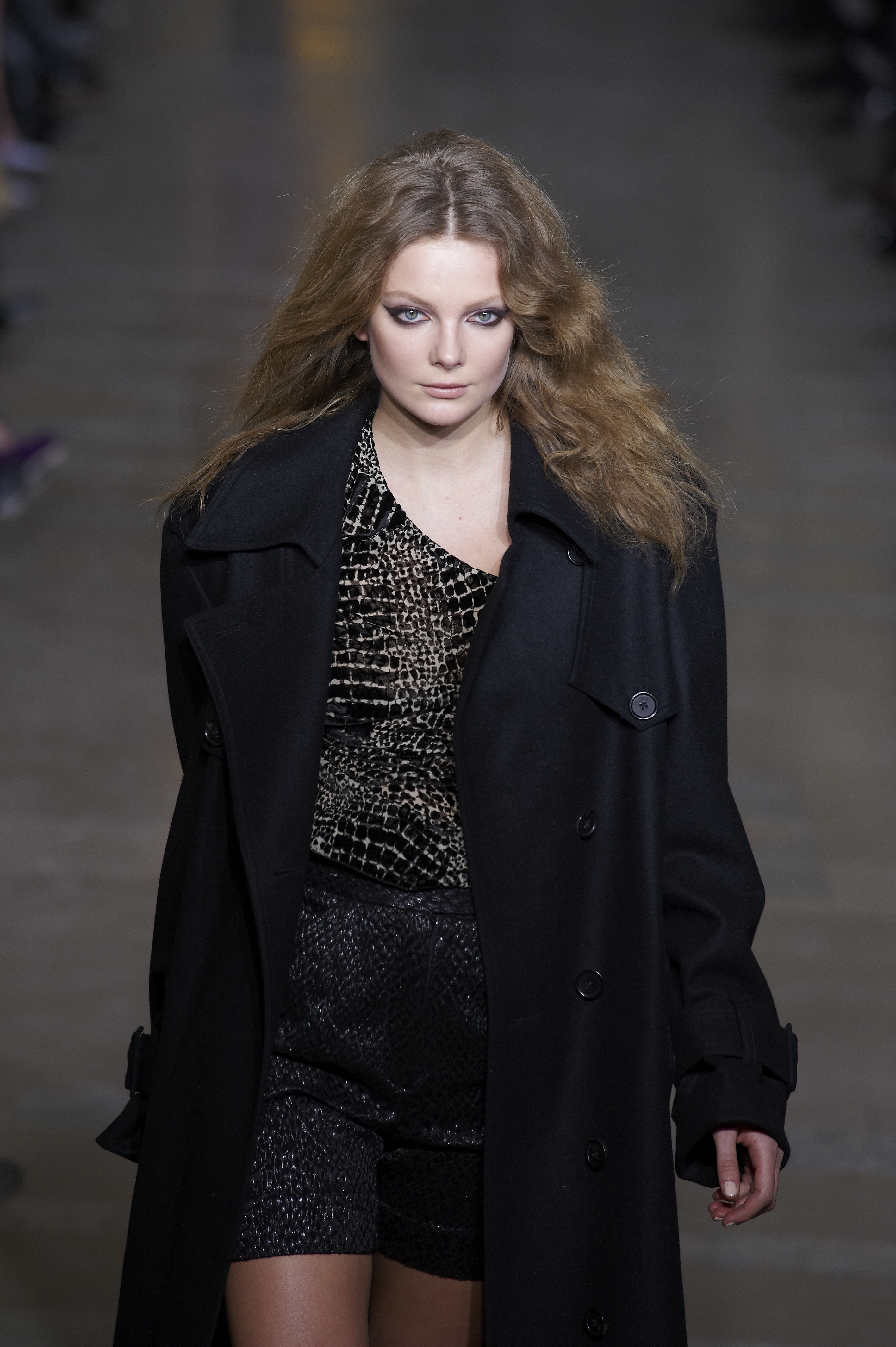 A model walks the runway at the Jill Stuart Fall/Winter 2010 show at New York Fashion Week, February 2010.